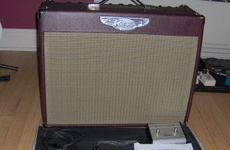 Image of a Traynor YCV40WR amplifier, picture taken in Burlington, Ontario, Thursday March 22, 2007. Made by me, Steven Fetterly. Author - Steven Fetterly